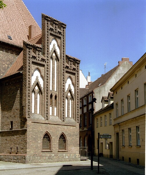 Chapel of the St. Nikolai church in Berlin-Spandau